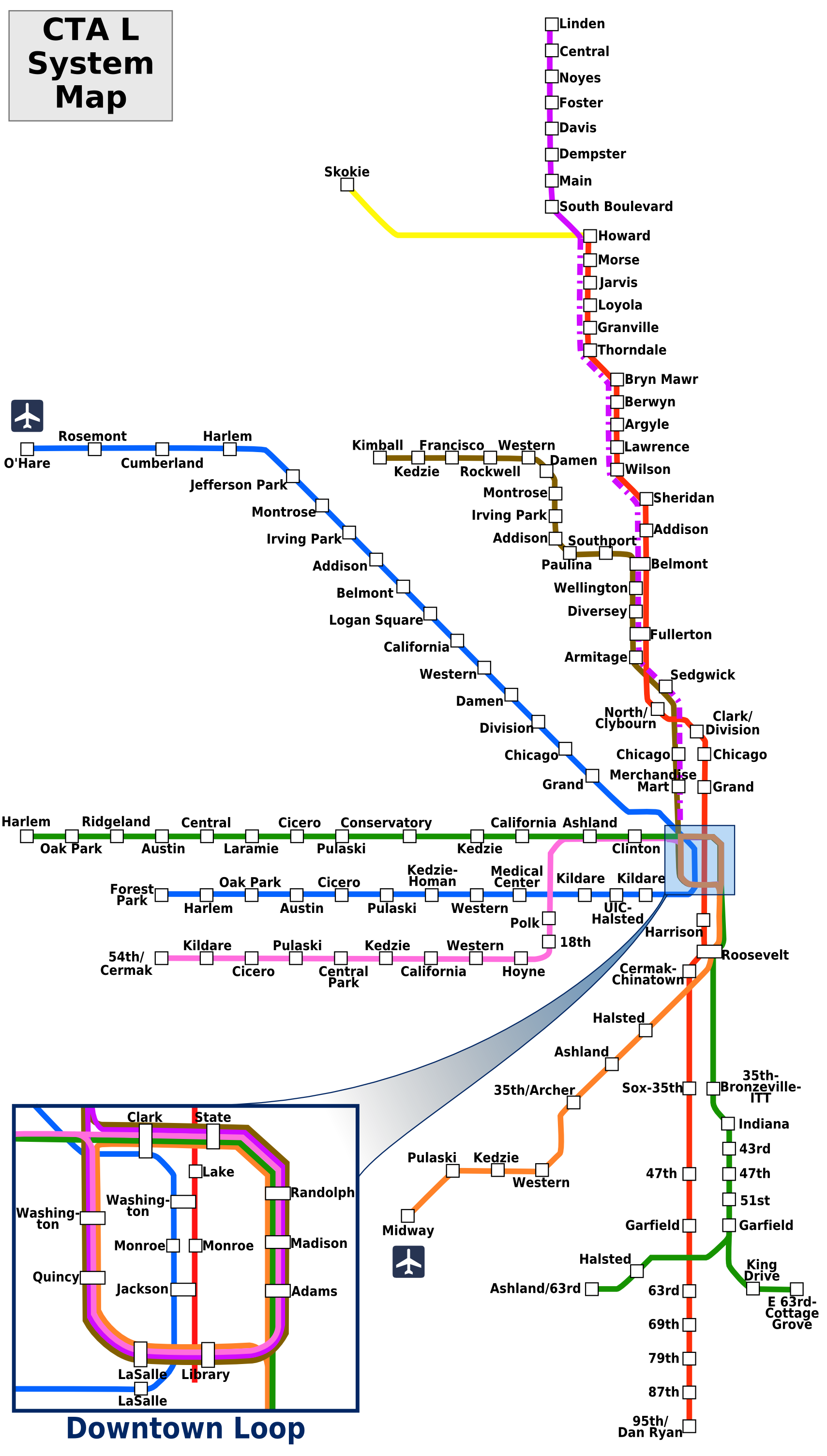 CTA L System map. PNG version, Chicago, Illinois